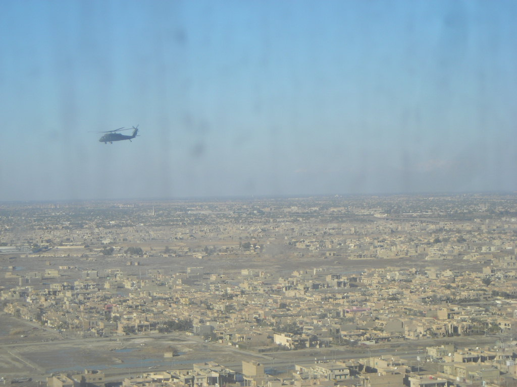 A snapshot of Baghdad including a U.S. helicpoter